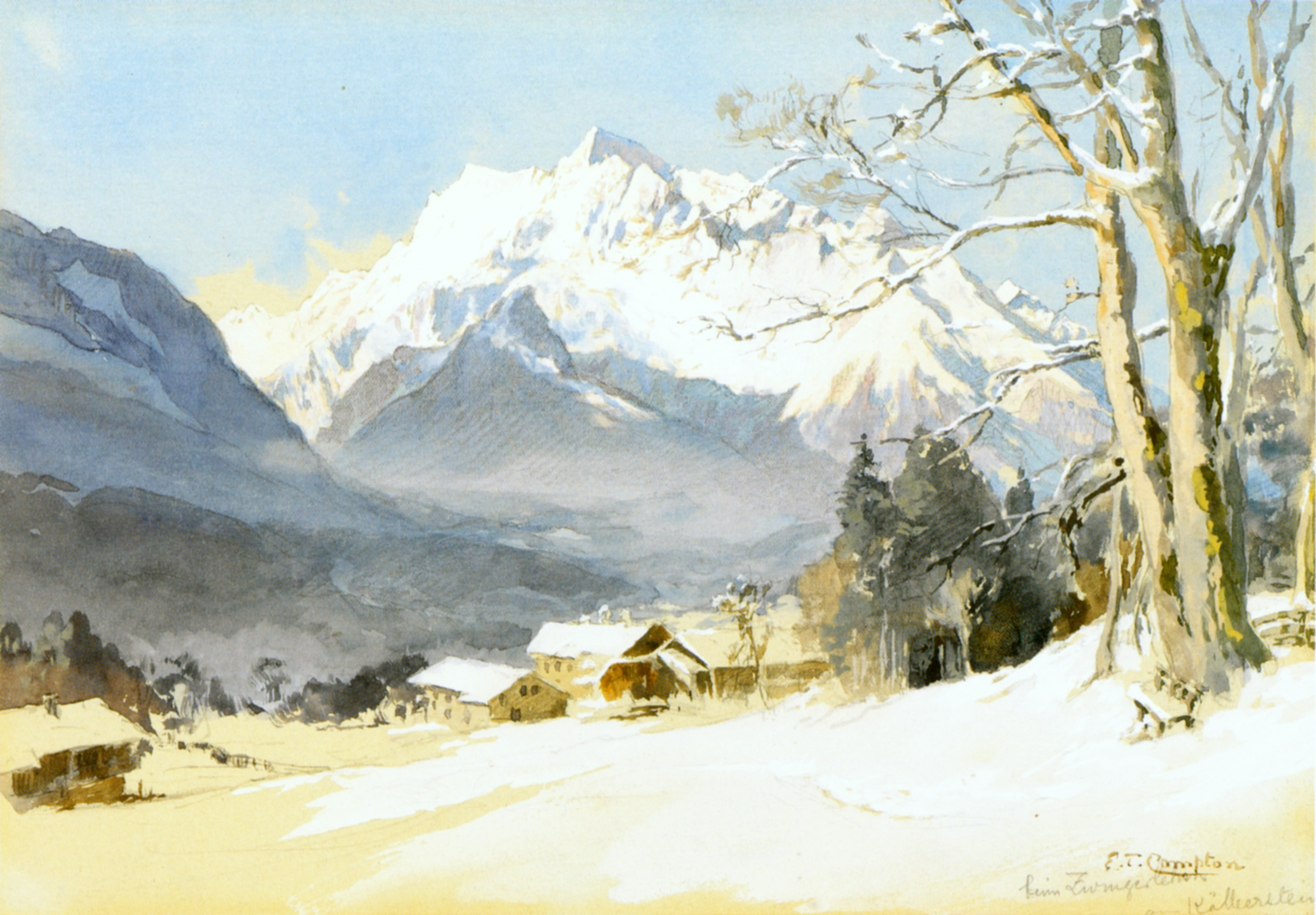 Aquarell, pencil on paper, 23 x 33.3 cm